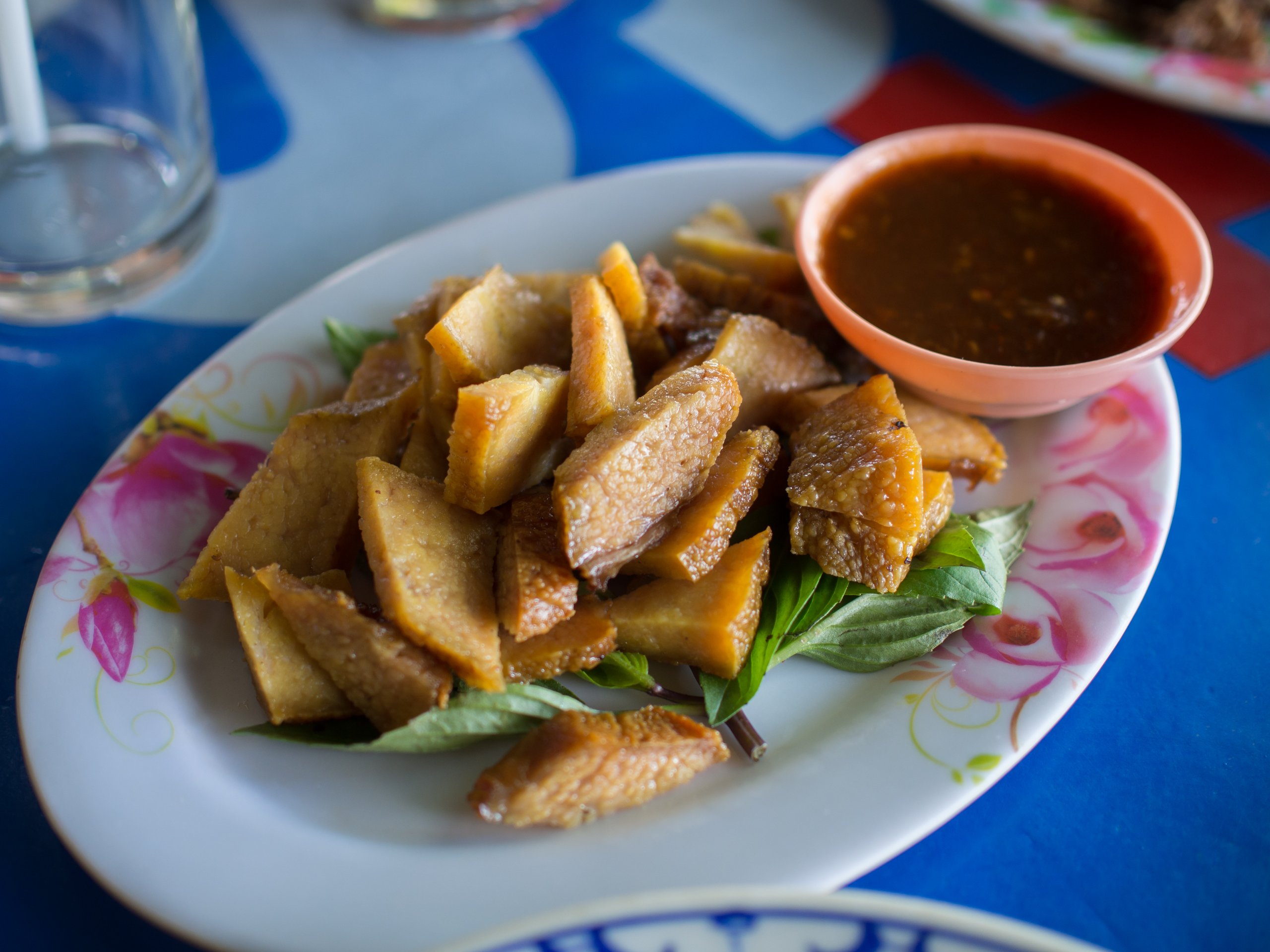 Paeng nom yang (Thai: แป้งนมย่าง) are grilled cow's udders